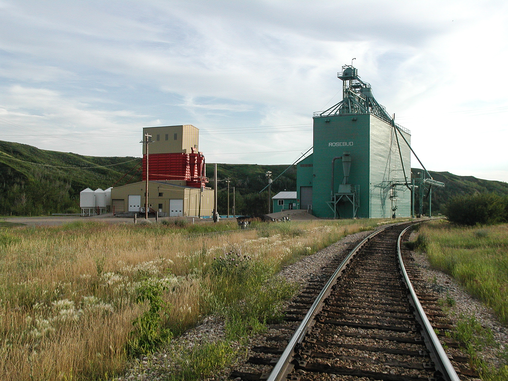 Canadian National Railway (CN) tracks leading to Rosebud Alberta Grain Elevator on July 19, 2003.